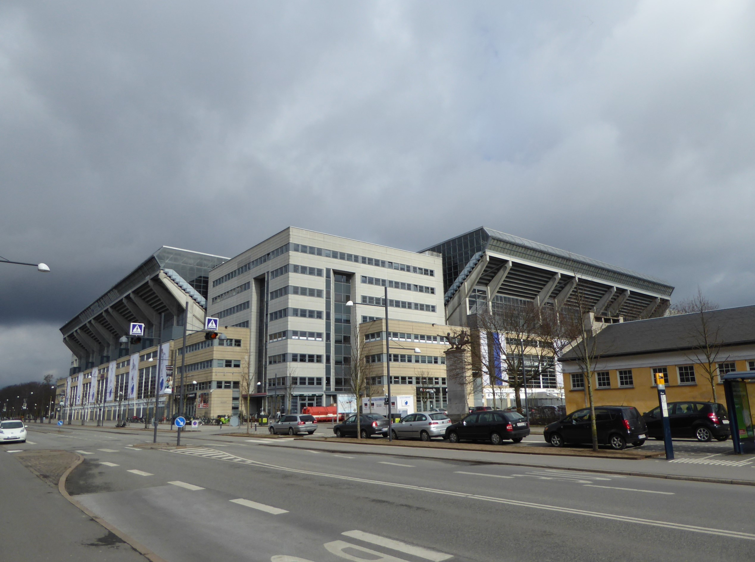 The Danish national soccer stadium Parken at Øster Allé in Østerbro in Copenhagen.